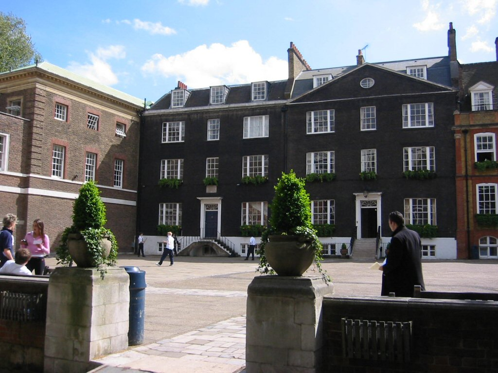 Grant's House (center) and College (far left) from Asburnham House Full size verison of optimized thumbnail: Image:Westminster school grants view small.jpg Date: 1st May 2003 14:47 1 Photograph: ed g2s • talk